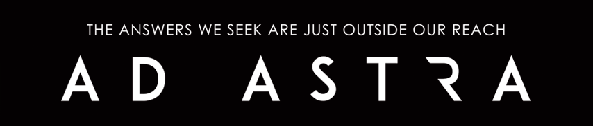 Official logo of the movie Ad Astra directed by James Gray